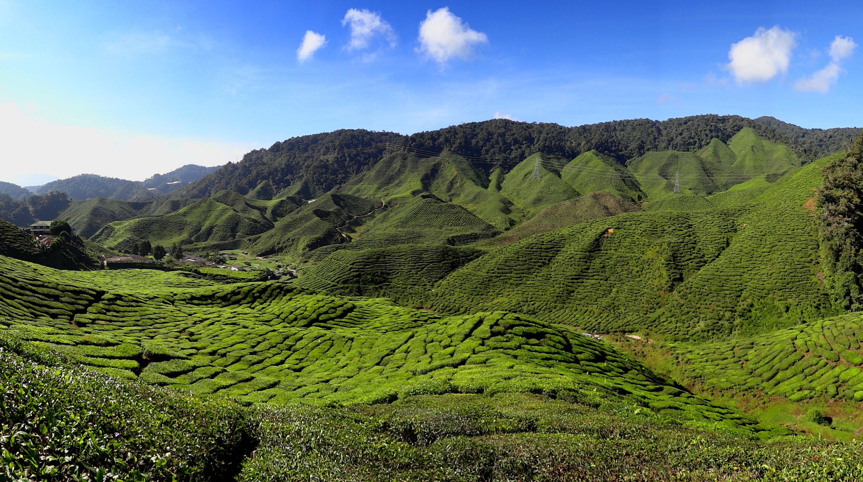 The Bharat Tea Plantation near Tanah Rata in the Cameron Highlands, Malaysia.